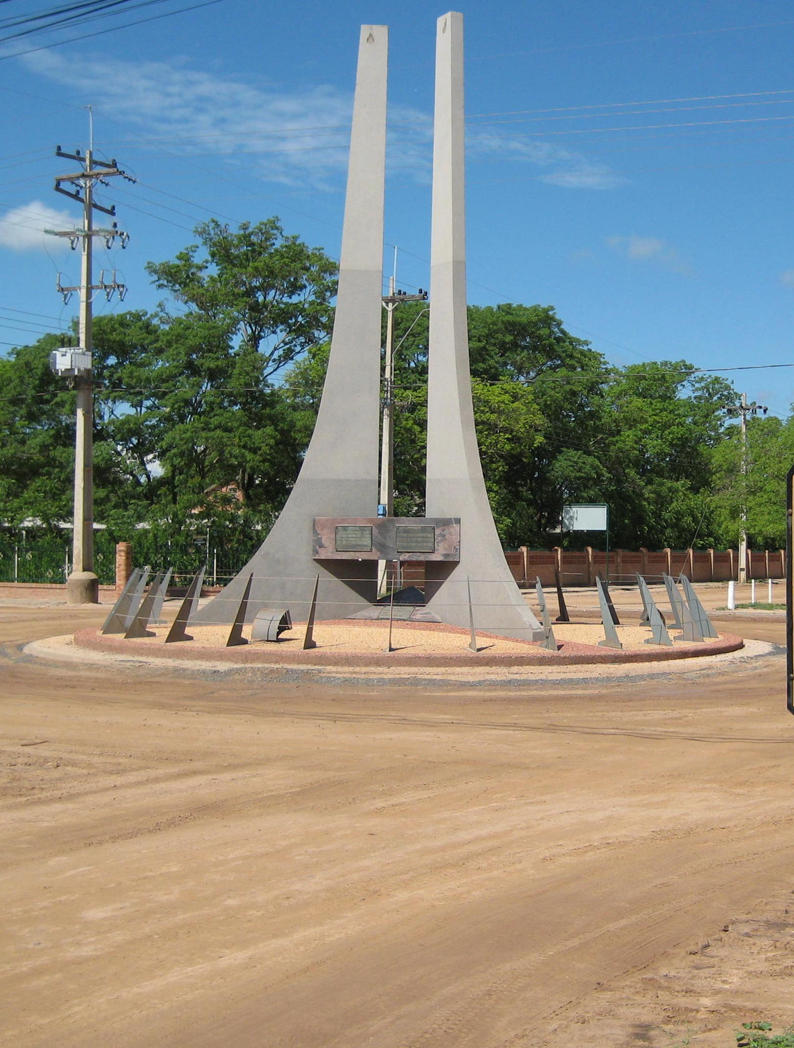 Monument erected for the 50th anniversary of Fernheim. [1]